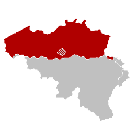 Gemeenschapskaart Vlaanderen